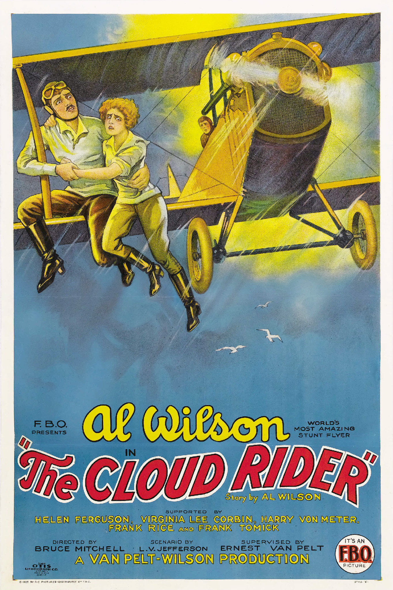 Poster for the 1925 film The Cloud Rider. Renewal searches were done in both film and artwork for the years 1952 and 1953. There were no listings in artwork for RC Pictures. The title was searched in films with no results. There's no evidence of continuing copyright.